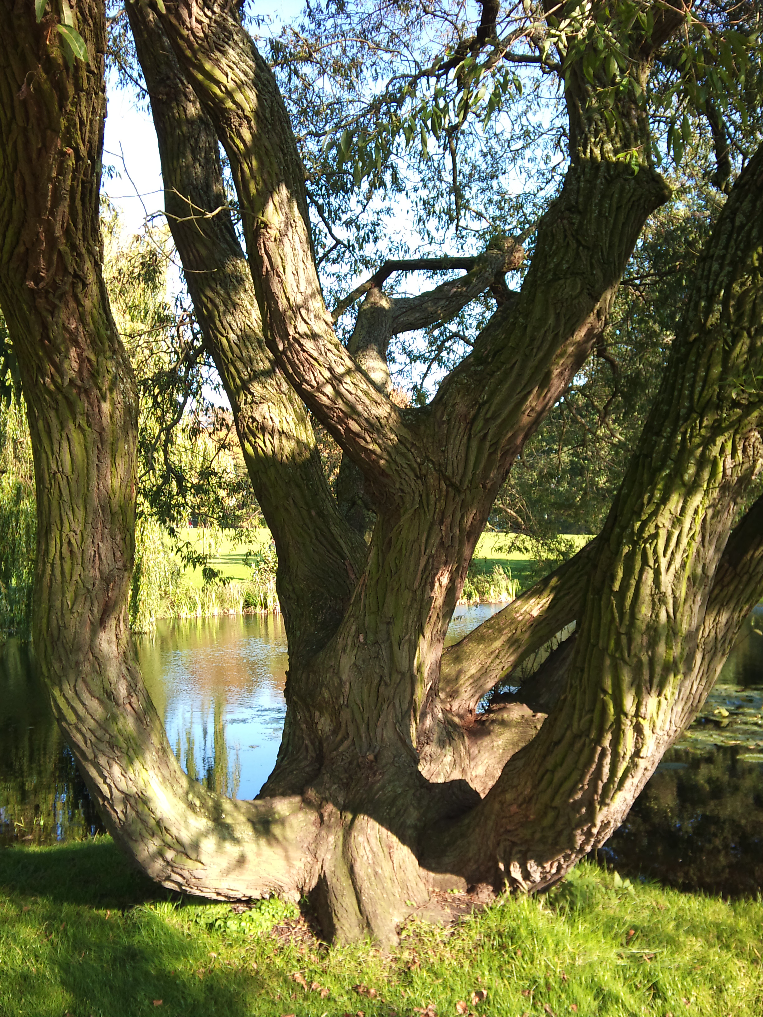 The body of a willow situated by a lake in a park in Malmo. For a related picture, go to File:Willow branches touching a lake.jpg. Photographed 23 October, 2011.